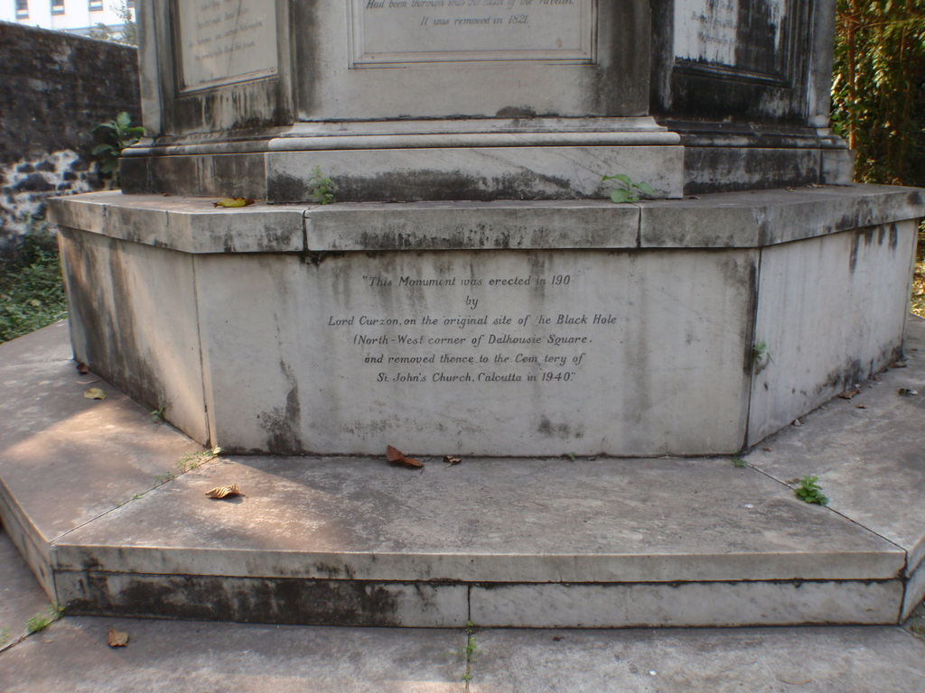 Inscription on Black Hole of Calcutta memorial St John's Church Calcutta